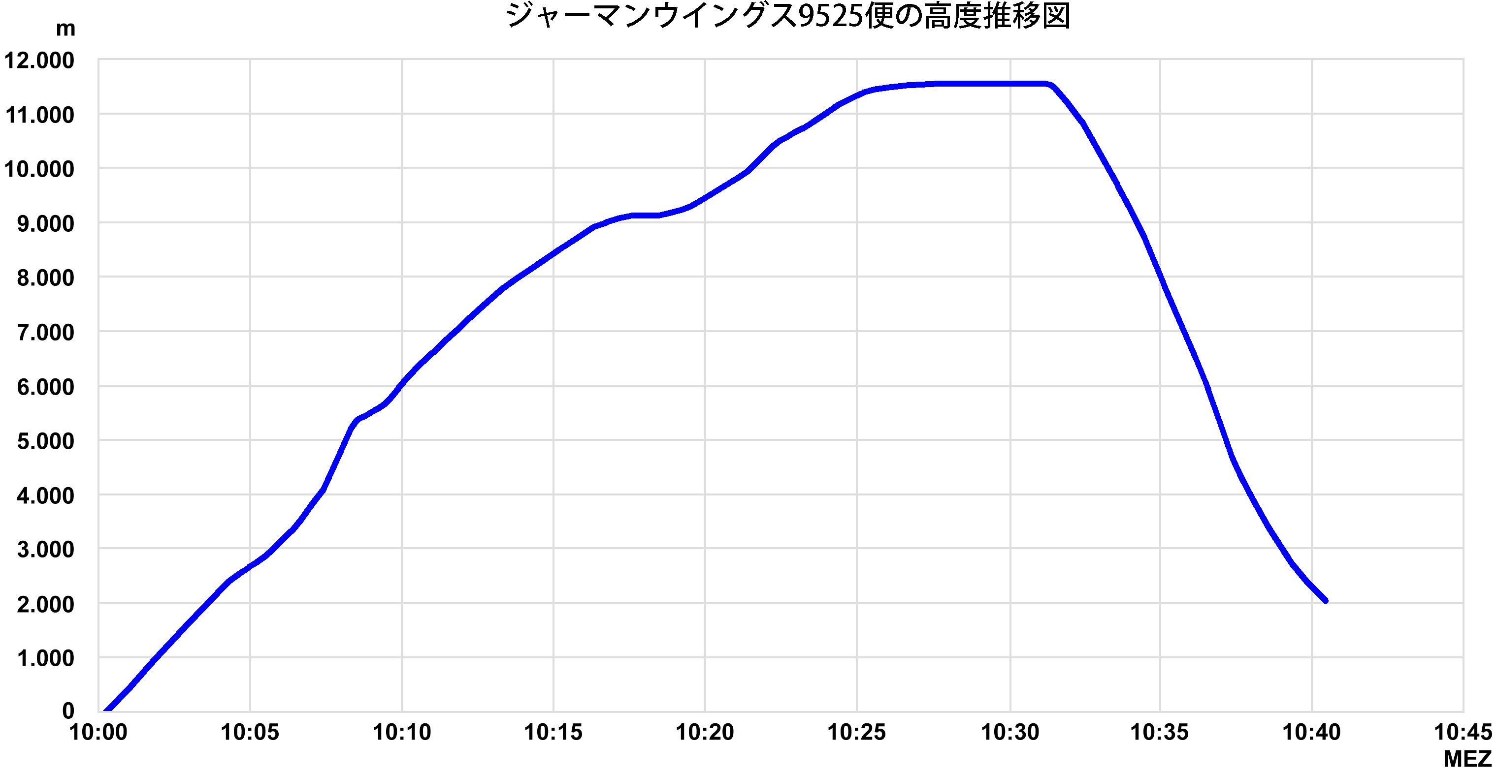 Altitude chart for Germanwings Flight 9525 (crashed), register D-AIPX (Japanese)